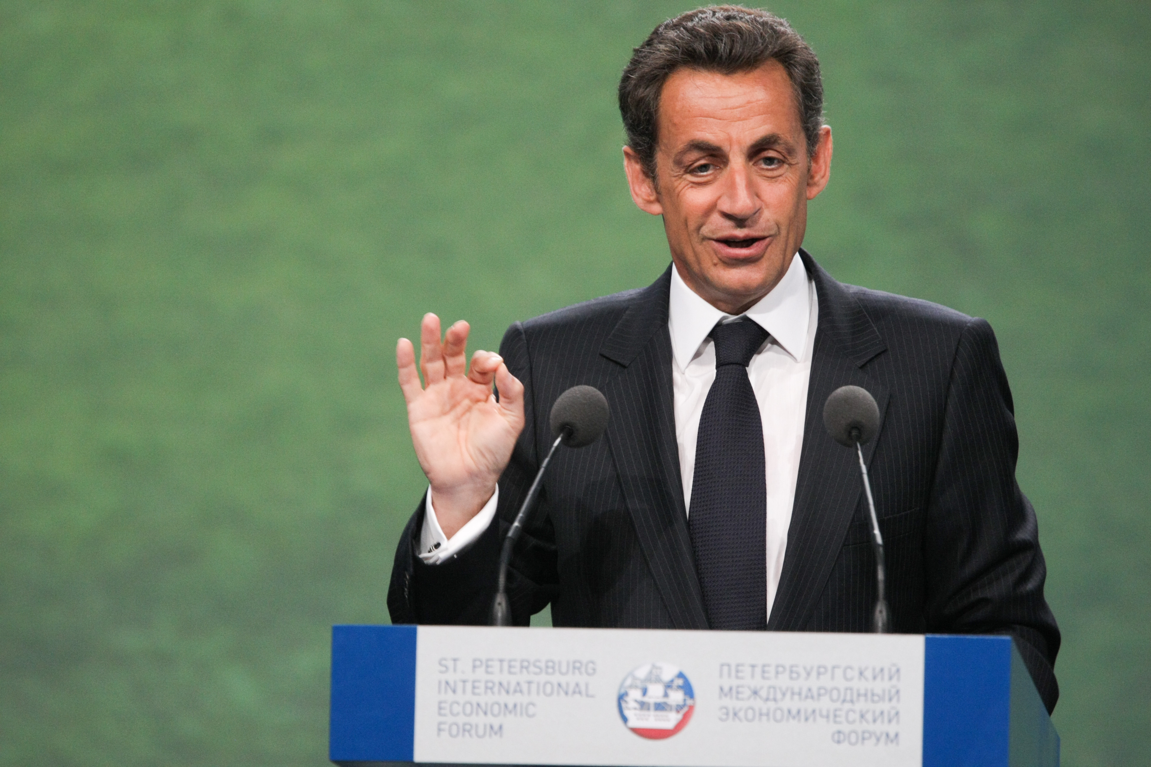 SPIEF